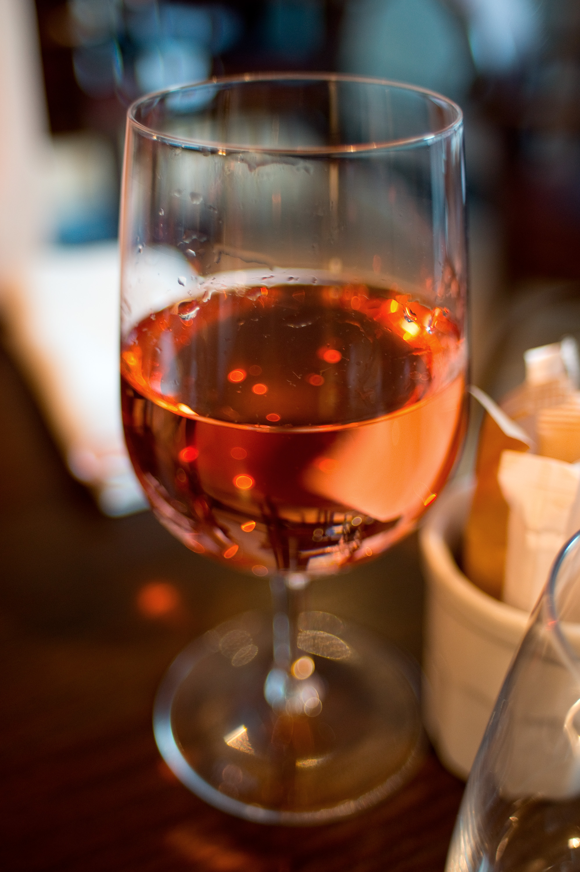 A glass of rosé wine, partially drunk, with some phlegm just underneath the rim.